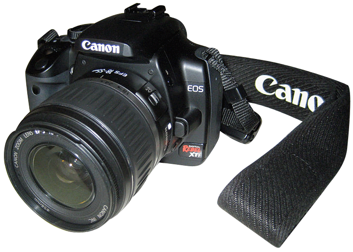 Canon EOS 400D (3D view)